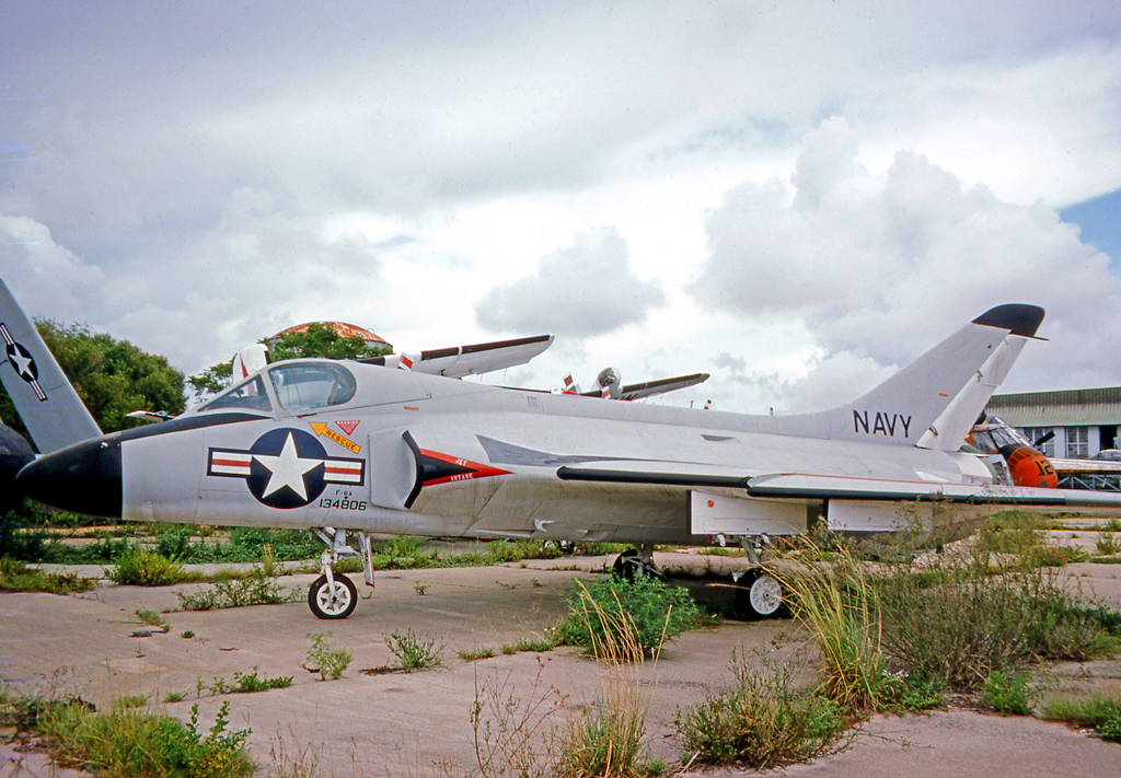 Douglas F-6A Skyray displayed at the NMNA at Pensacola Florida in 1975